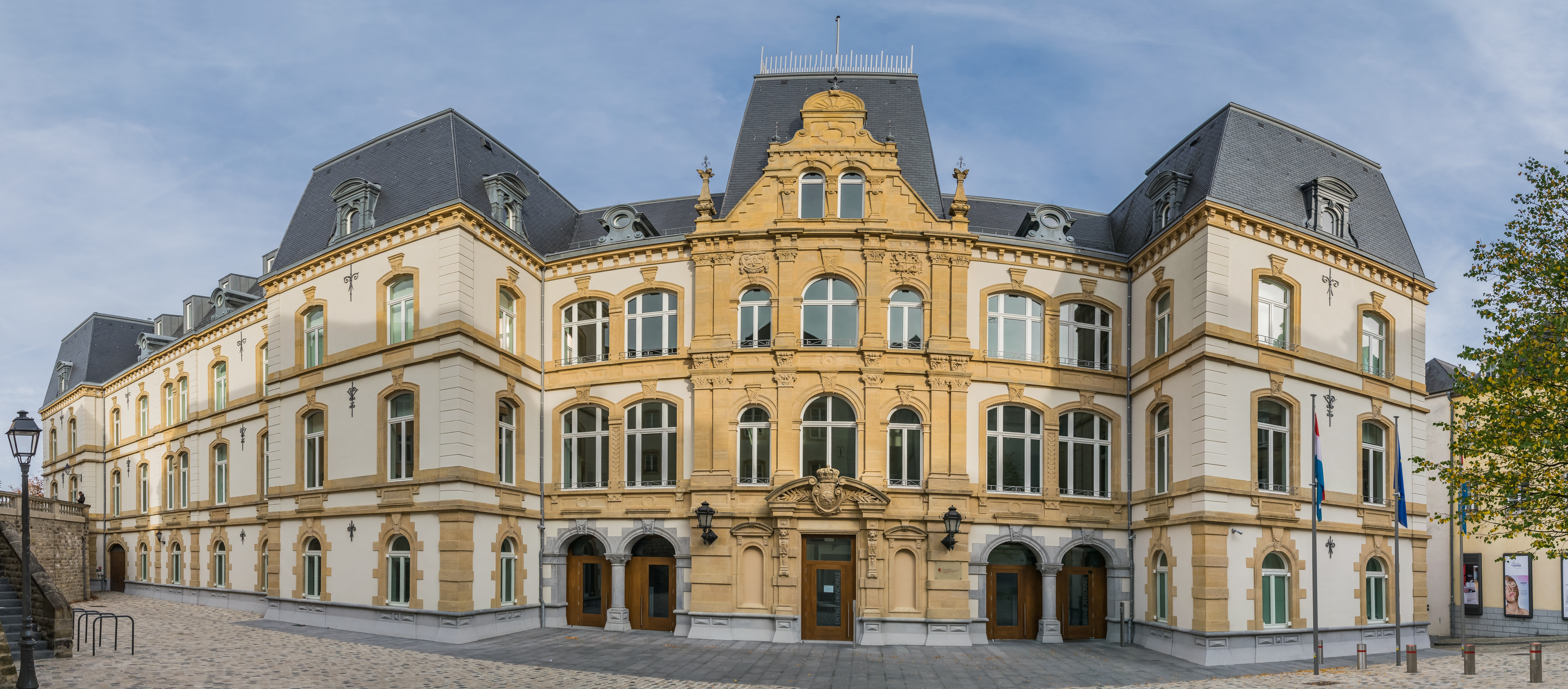 Mansfeld building in Luxembourg City, Luxembourg